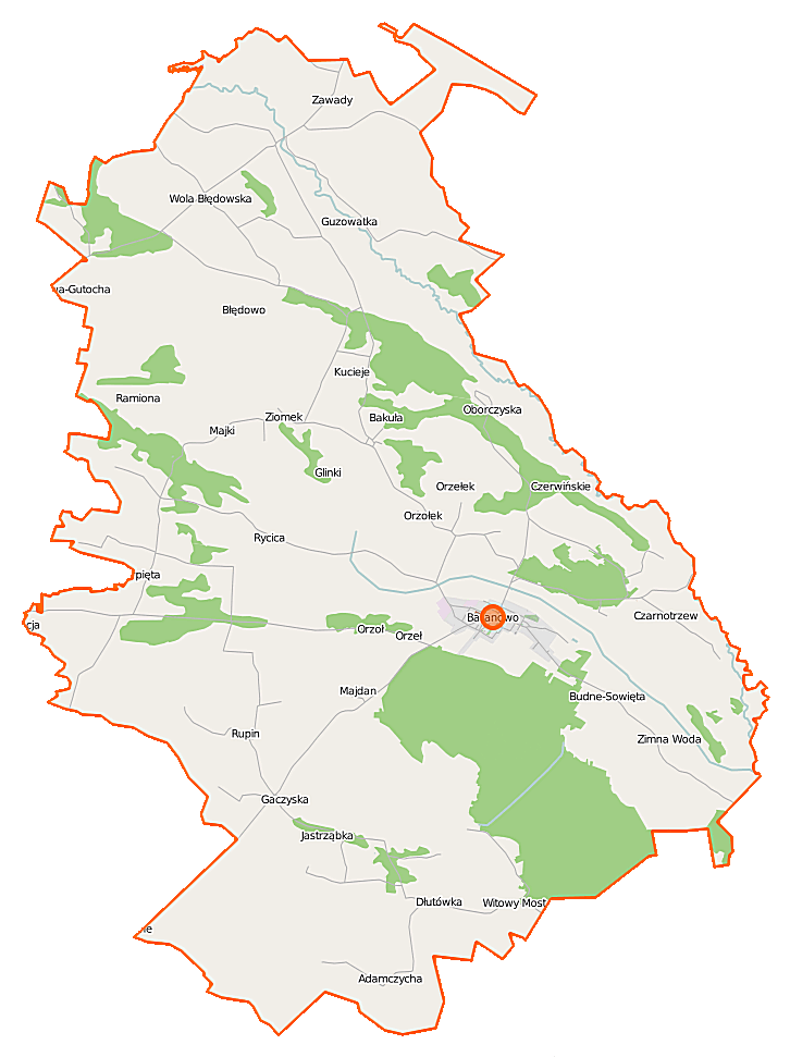 Map of Gmina Baranowo, Poland This map of Baranowo (gmina) was created from OpenStreetMap project data, collected by the community. This map may be incomplete, and may contain errors. Don't rely solely on it for navigation. Border coordinates53.291721.1398←↕→21.389053.0915